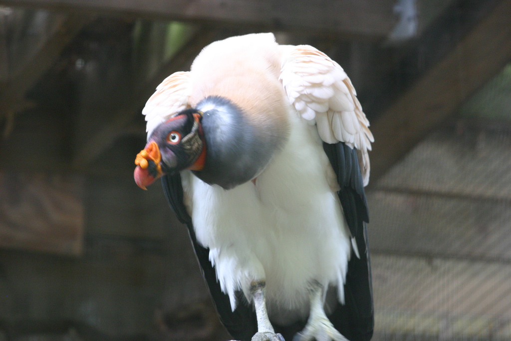 King Vulture at Zoo Atlanta, USA.